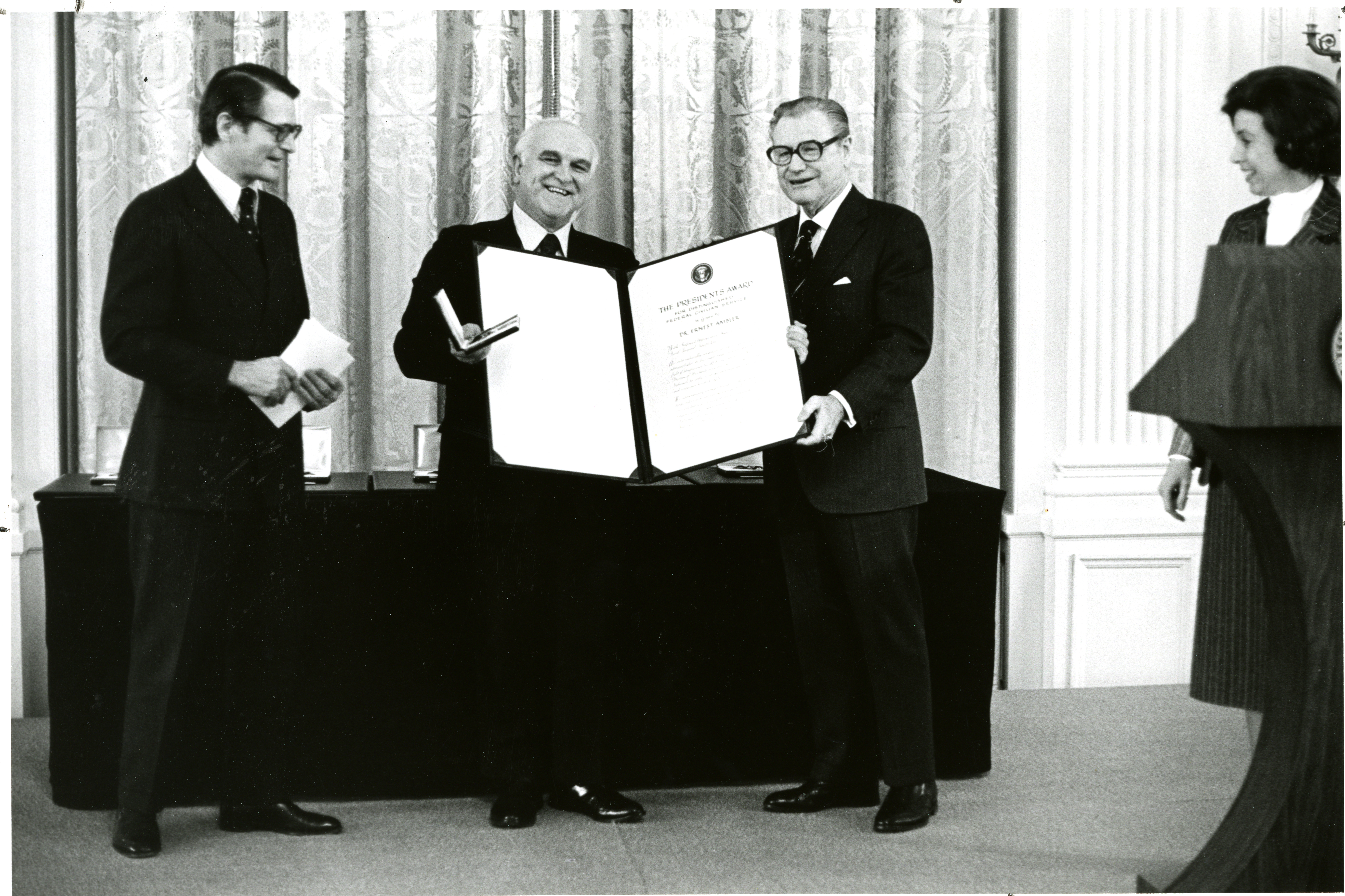 Dr. Ernest Ambler receives the President's Award for Distinguished Federal Civilian Service (with Secretary of Commerce Richardson and others)